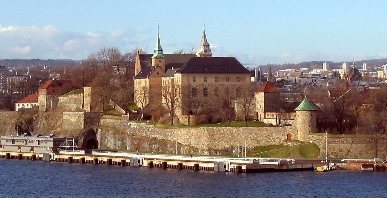 The fortress Akershus Festning in Oslo, Norway